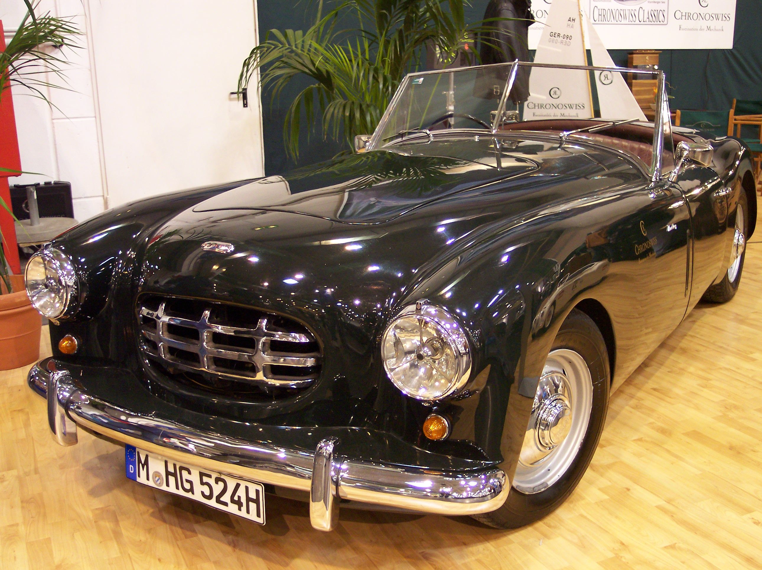 Techno-Classica 2007, Alvis Healey G, ~3000 cc, 78 kw (108 HP)